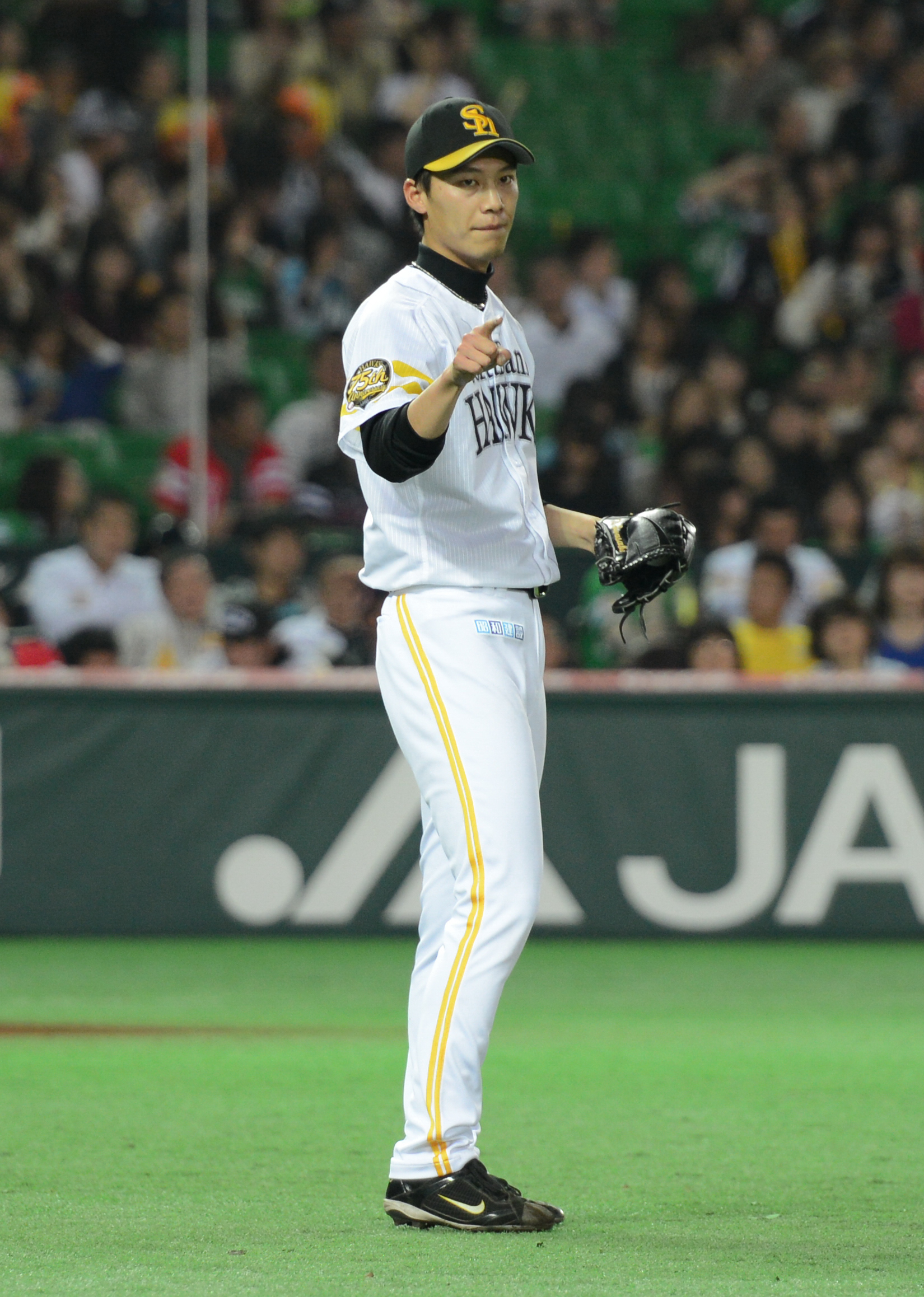 Sho Iwasaki, pitcher of the Fukuoka SoftBank Hawks, at Fukuoka Dome.